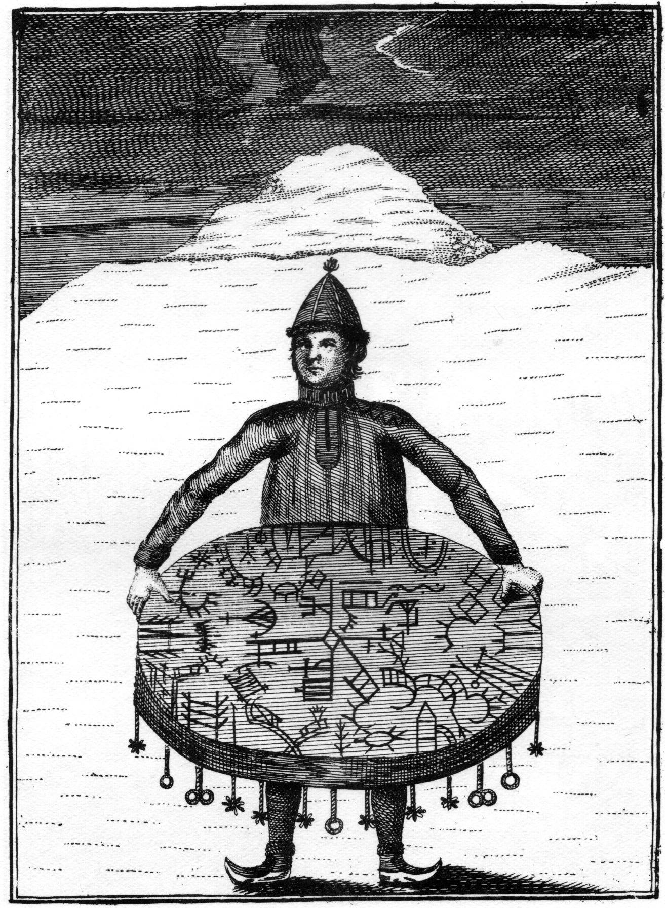 Copper carving depicting a Sámi shaman from Meråker, Nord-Trøndelag with his drum (meavrresgárri / gievrie).